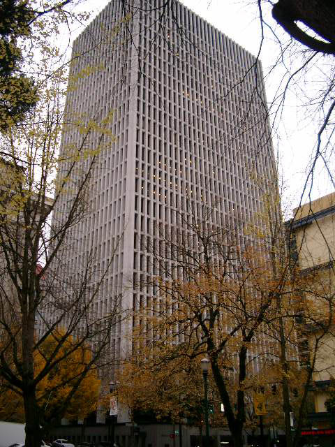 Standard Insurance Center in Portland, Oregon as viewed from the southeast side.